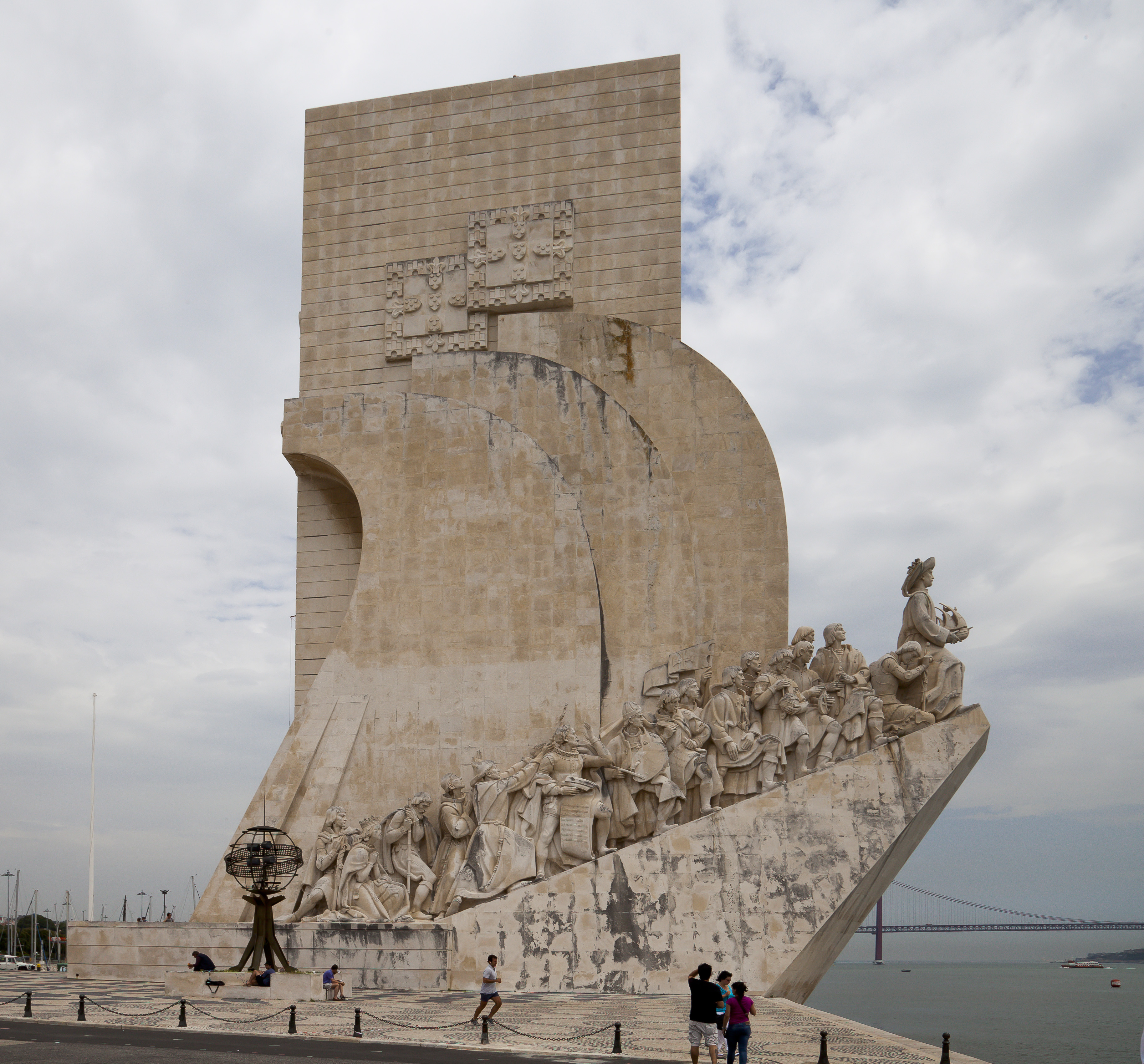 Monument to the Discoveries in Belém (Lisbon), Portugal